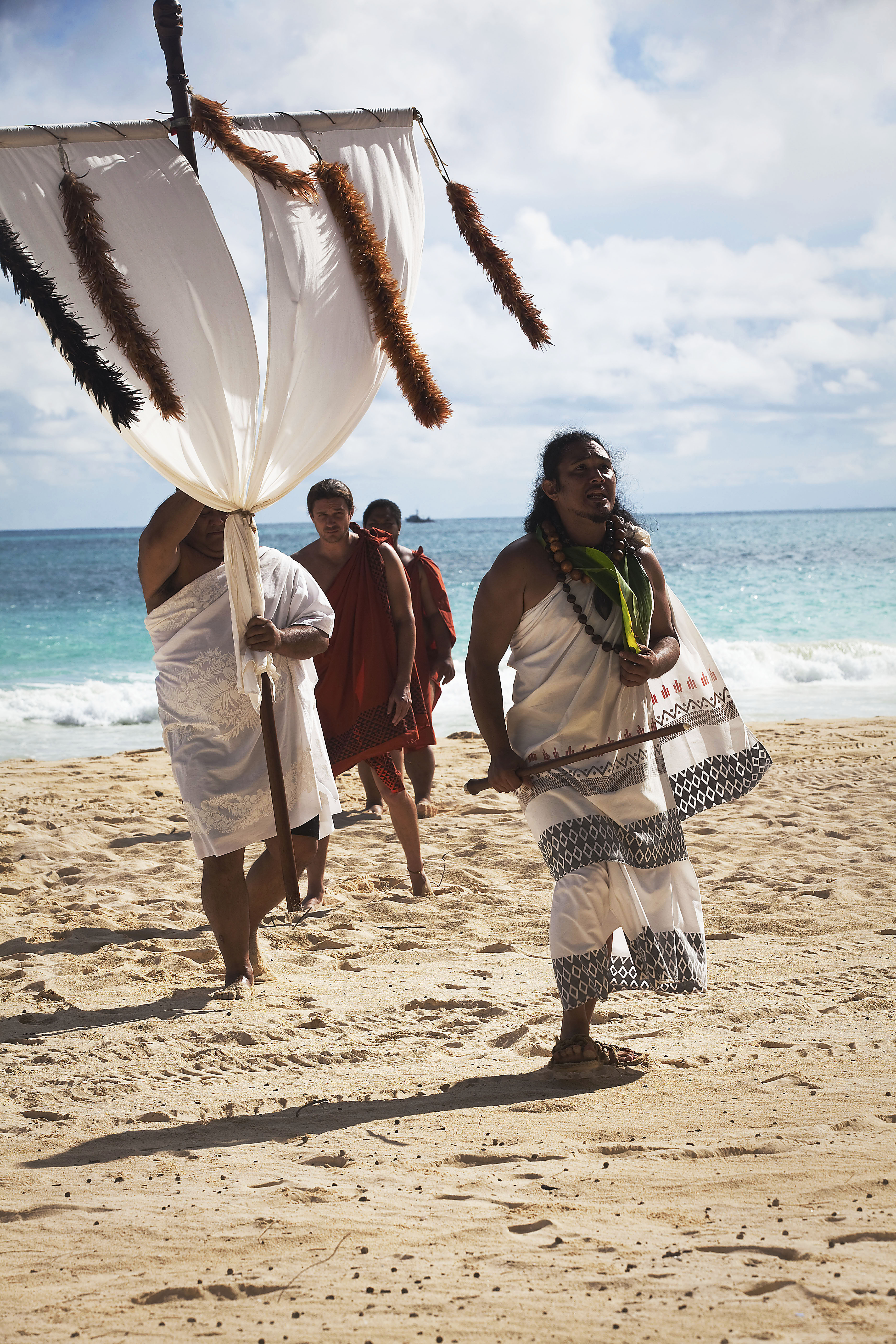 Marked by a wooden cross adorned with white cloth and flowers embodying the deity Lono, members of a ceremonial procession walk off the beach during a Makahiki festival at Bellows Air Force Station in Waimanalo, Hawaii, November 20, 2010. Lasting from October until February, the Makahiki season honors the Hawaiian god Lono, the guardian of peace and health, as he arrives for the transition from Ku, a time of war, politics and construction, to Lono, a time of relaxation and celebration of life.